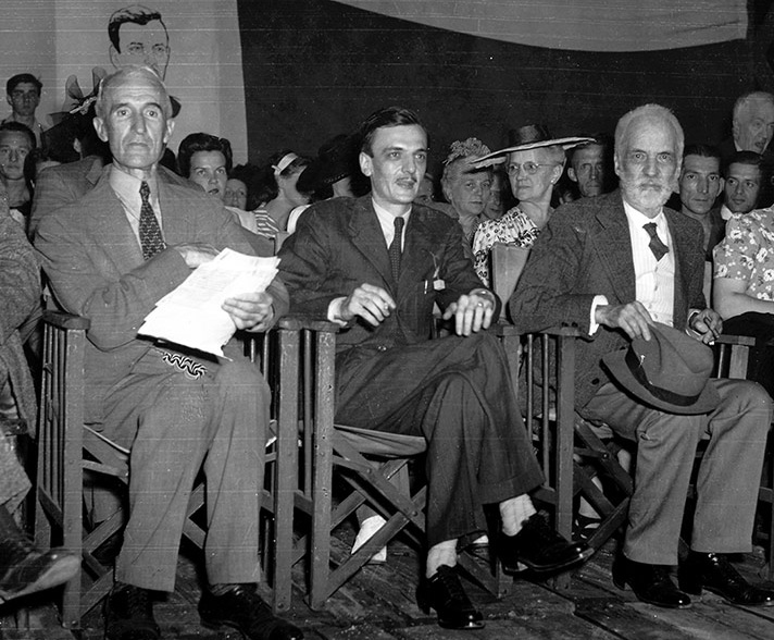 Maxime Raymond, André Laurendeau and Henri Bourassa, during a public meeting of the Bloc populaire canadien, held at de Montreal's de Lorimier stadium on August 3rd, 1944.